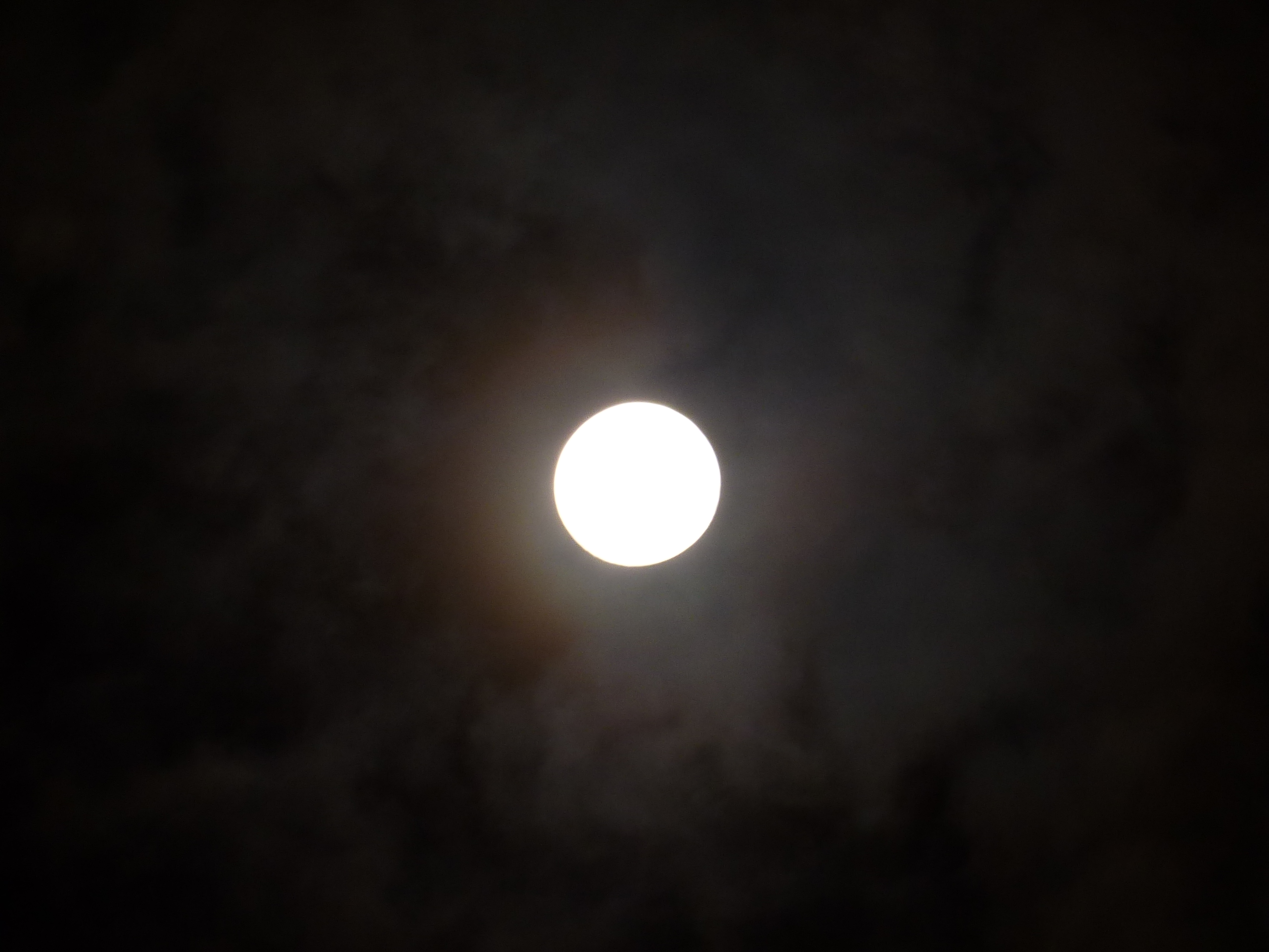 Blue moon from Thanh Hoa province, Vietnam